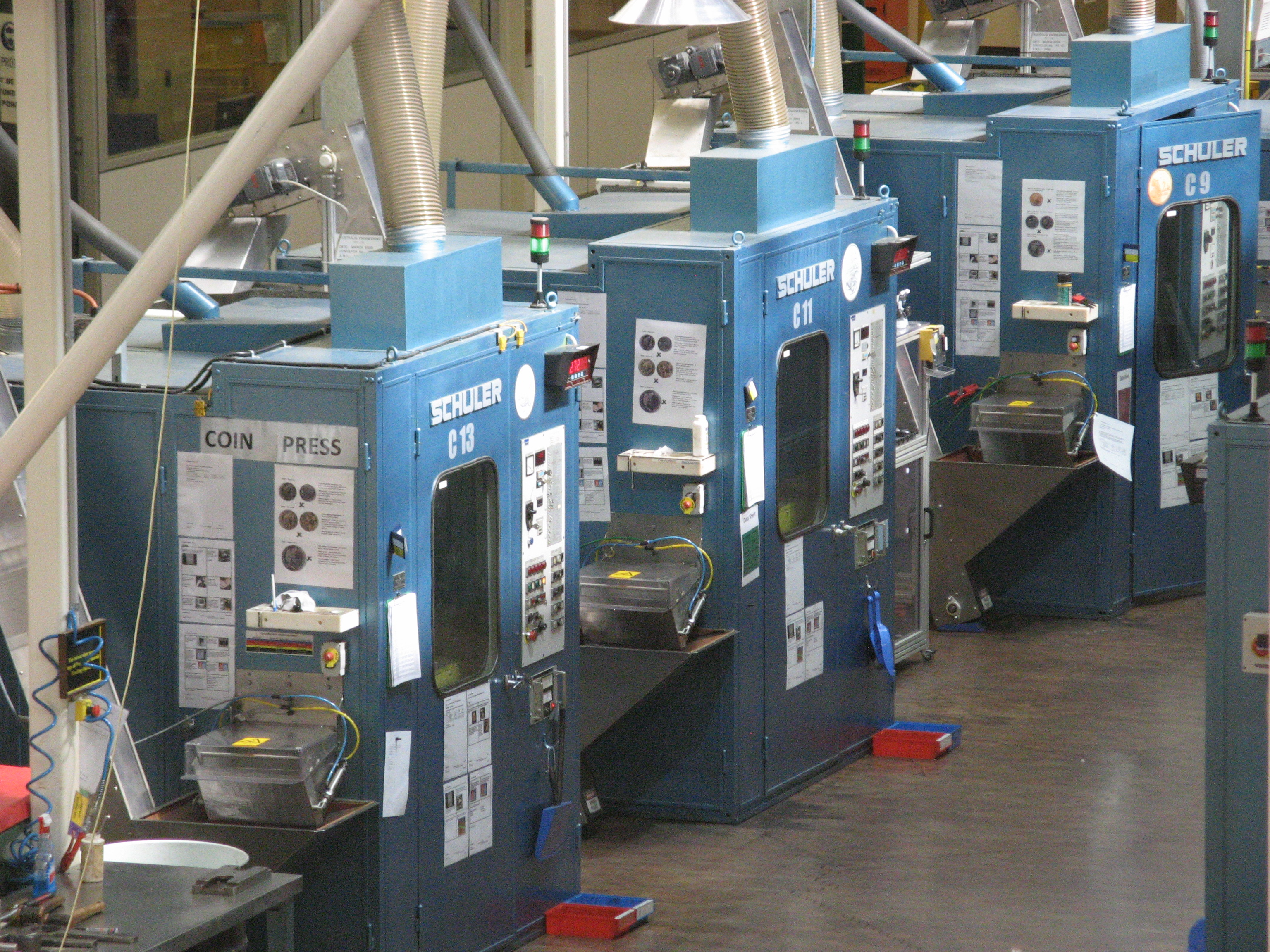 Three coining presses at the Royal Australian Mint, Canberra. These produce coins for general circulation.